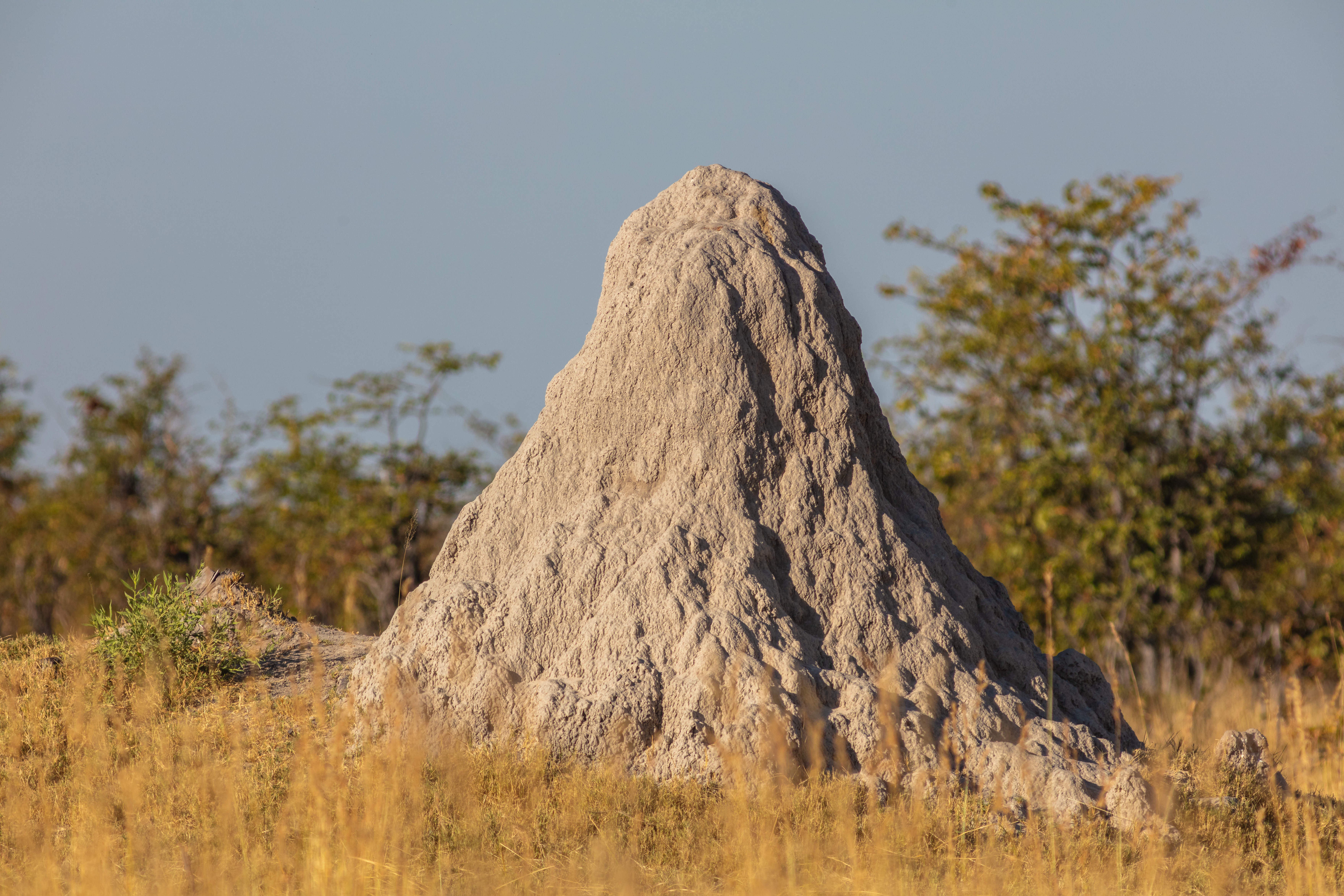 Termite mound, Okavango Delta, Botswana